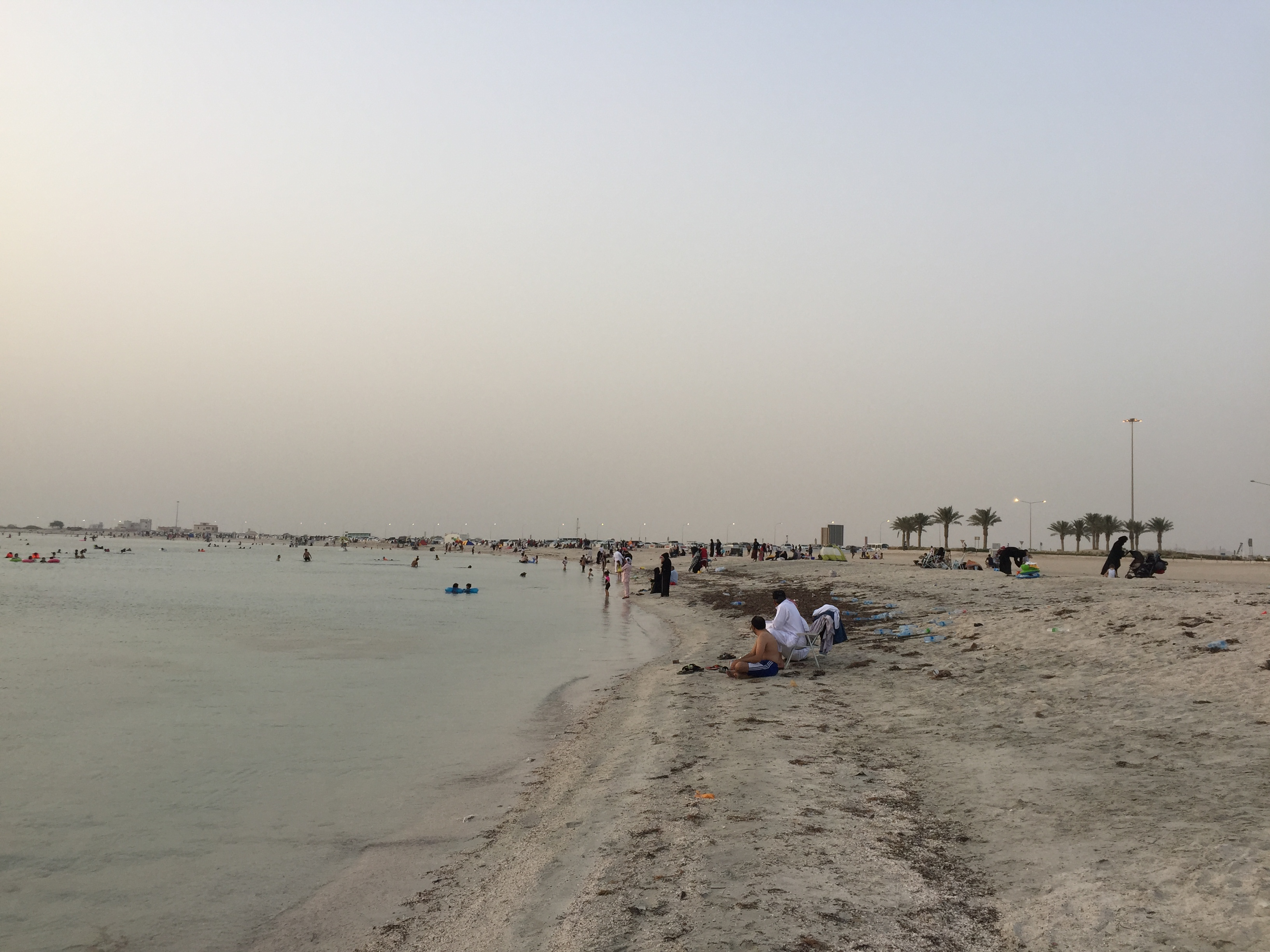 Dukhan public beach in Qatar.